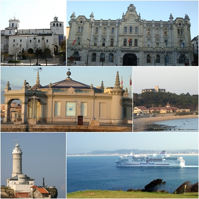 Top places of Santander.